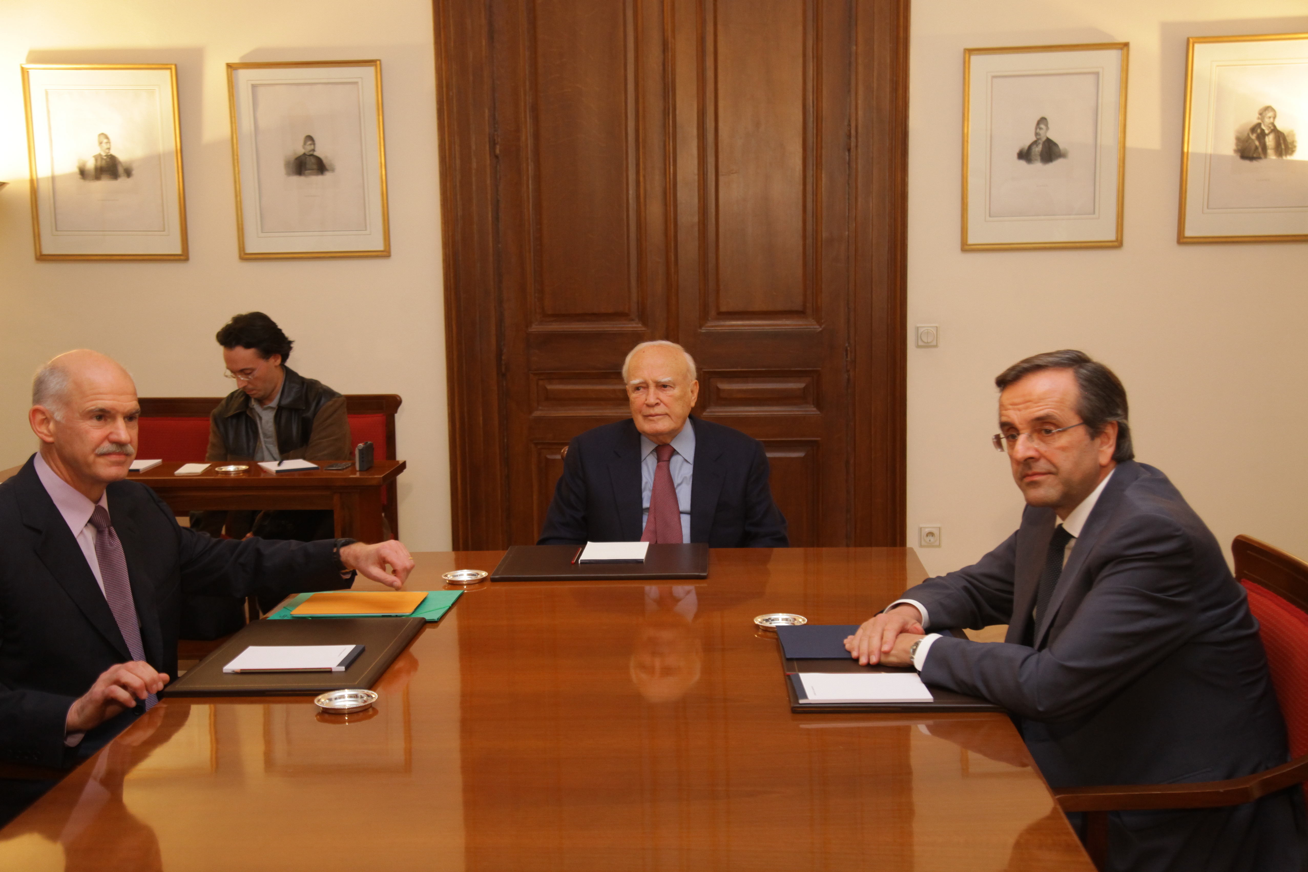 George Papandreou, former Prime Minister of Greece, with Antonis Samaras, leader of the opposition, and Karolos Papoulias, the President of Greece, discussing the details for the formation of a caretaker government in Greece.